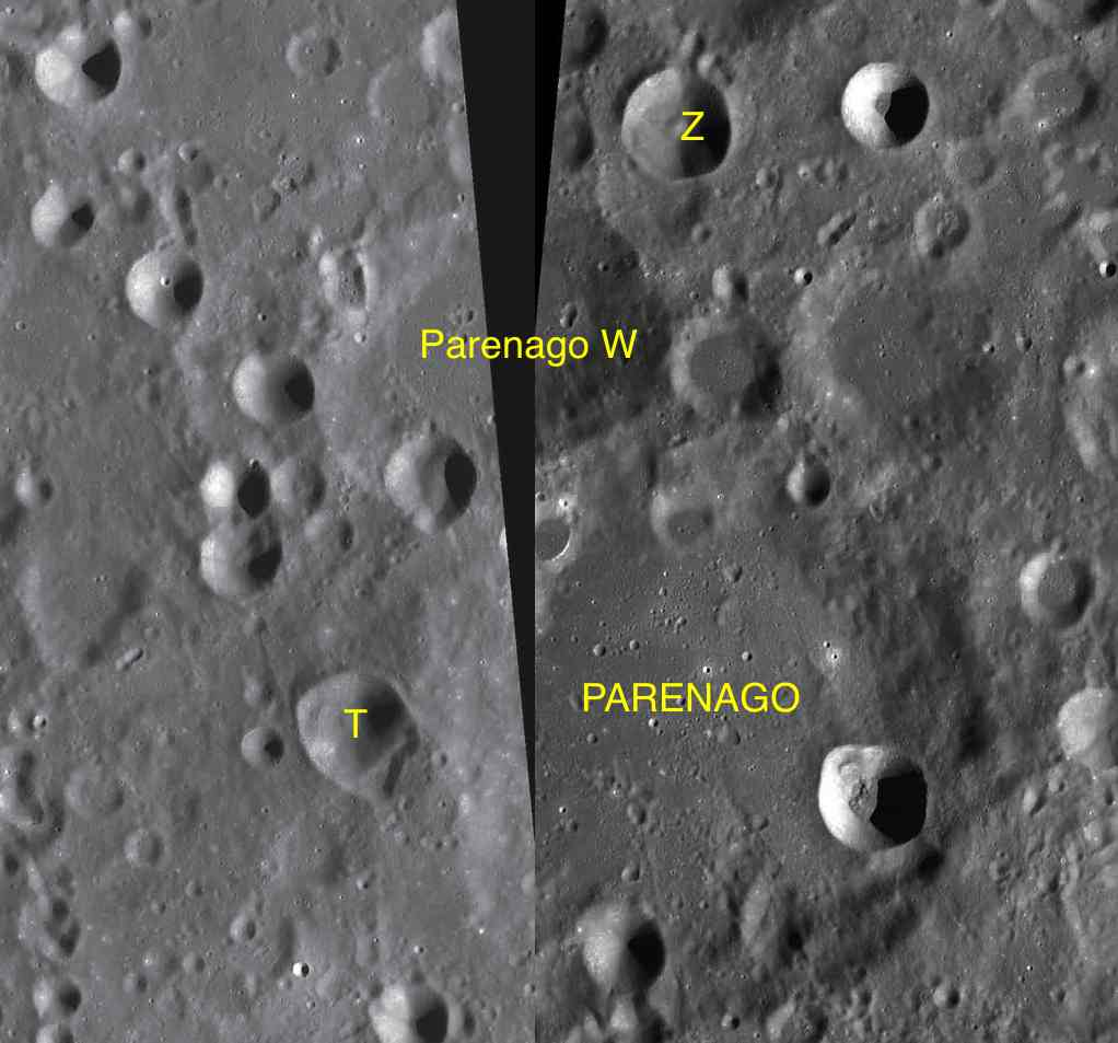 Parts of the charts LAC-53, LAC-54 used for the presentation